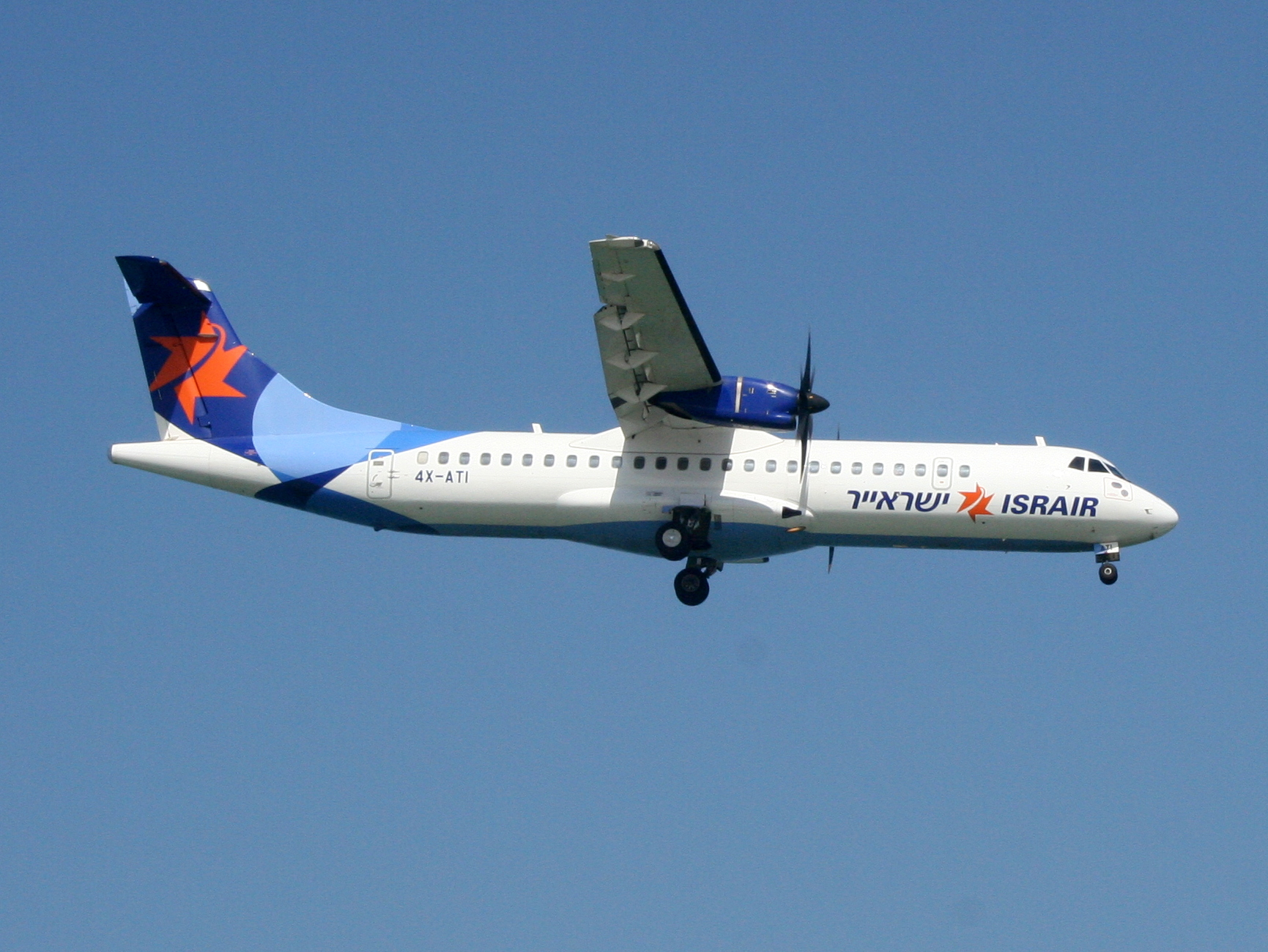 Israir 4X-ATI (ATR 72-212a) on final to Sde Dov airport in Tel Aviv